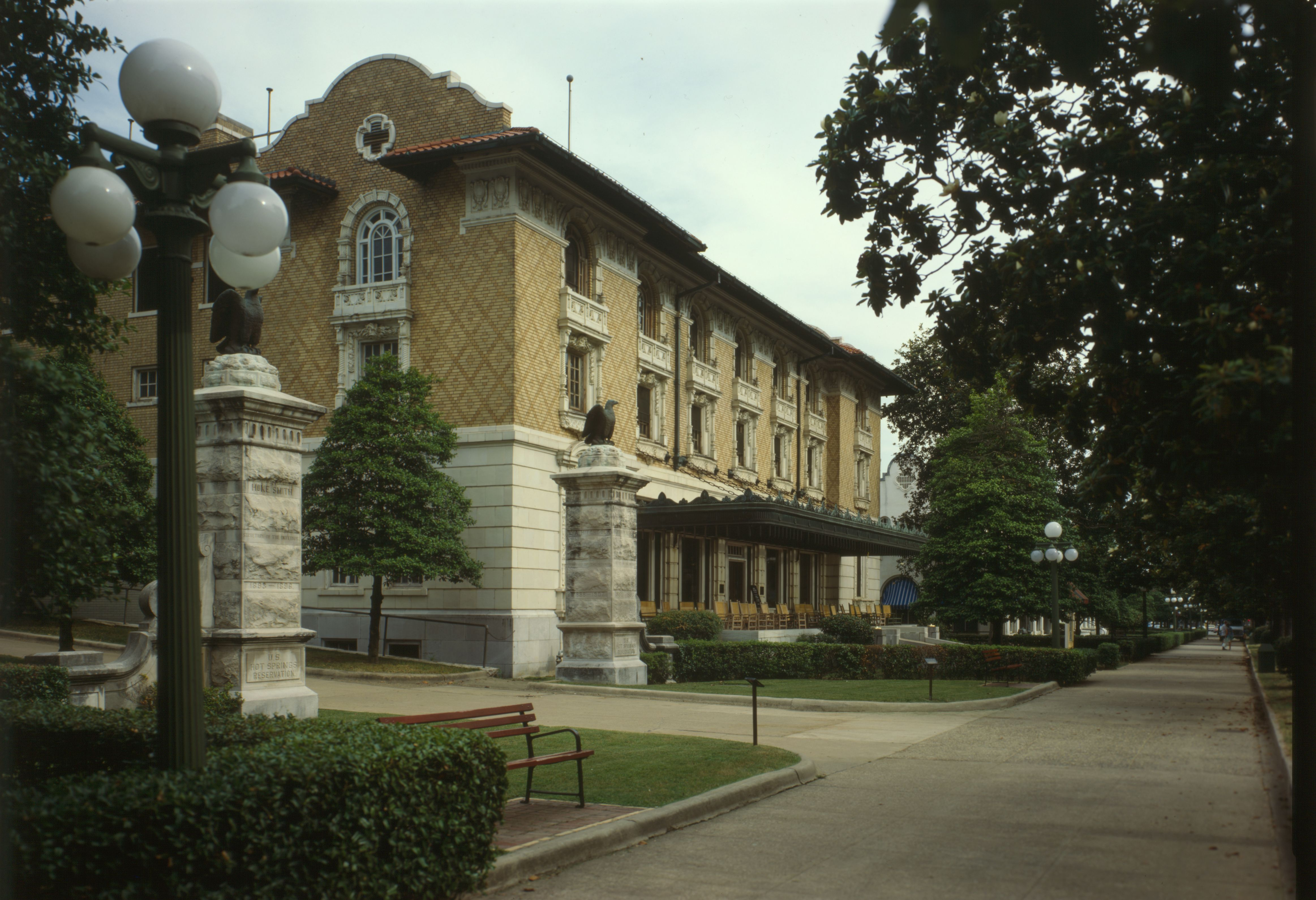 Fordyce Bathhouse, Bathhouse Row, Hot Springs National Park. WEST FRONT FROM NORTHWEST SHOWING COLUMNS OF PROMENADE ENTRANCE BETWEEN THE FORDYCE AND MAURICE BATHHOUSES. Historic American Buildings Survey—HABS image.